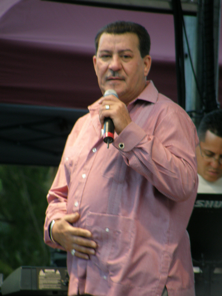 This photo was taken on November 1, 2009 using an Olympus SP560UZ.